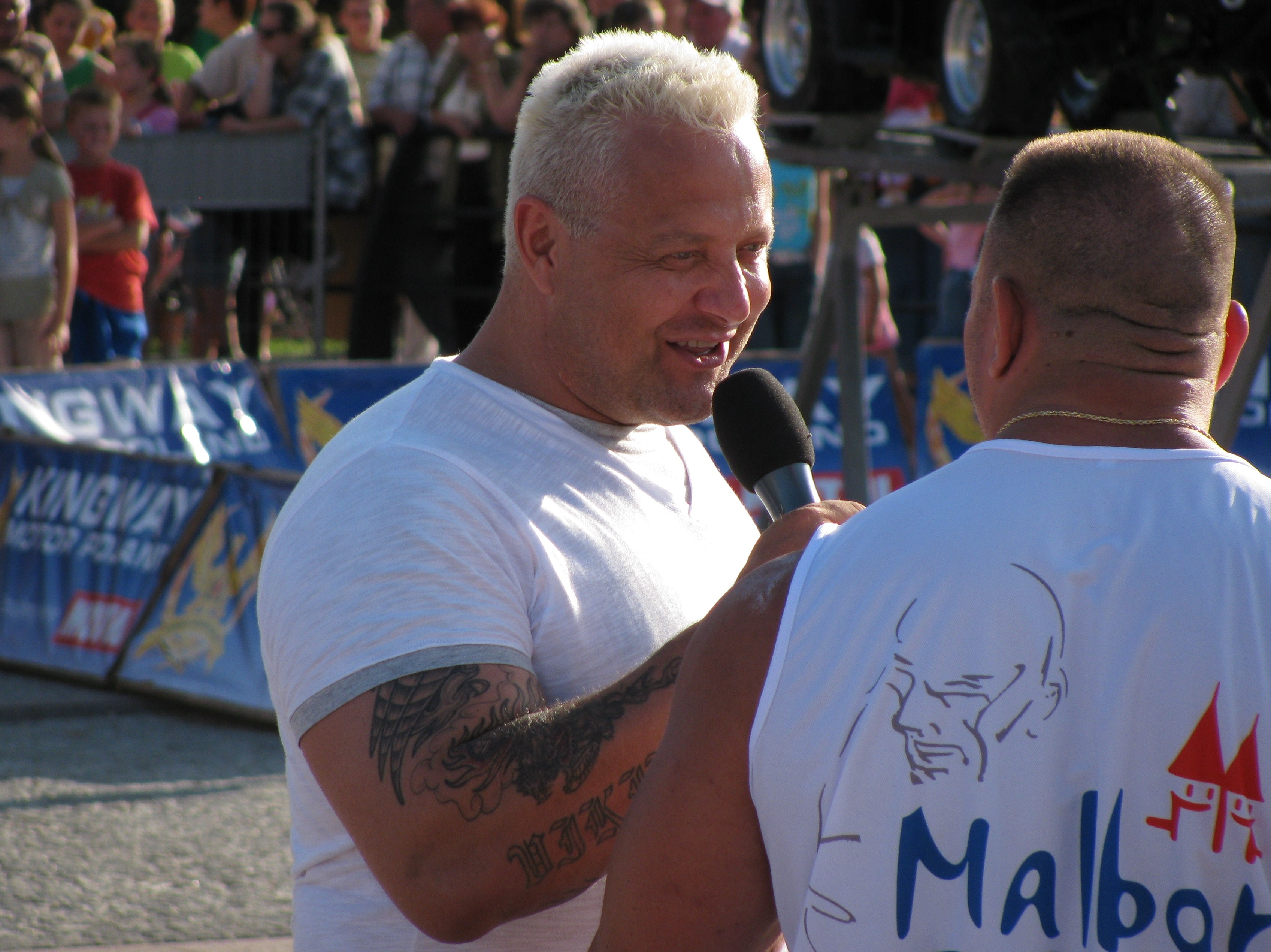 Svend Karlsen - a strength athlete from Norway as a tv presenter.